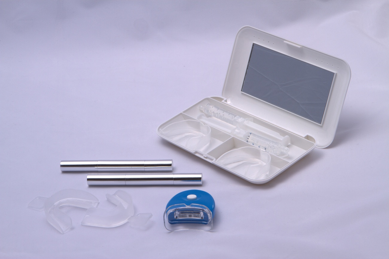 Common Teeth Whitening Items Found In Many Take Home Kits